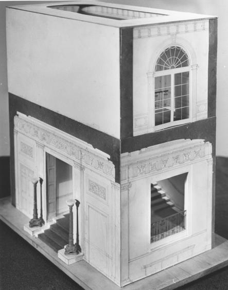 Harry S. Truman Library and Museum photograph of a maquette of new Grand Stair for White House after renovation. Unknown photographer. Date: October 24, 1950 Accession number: 71-381 Accession number: 71-380